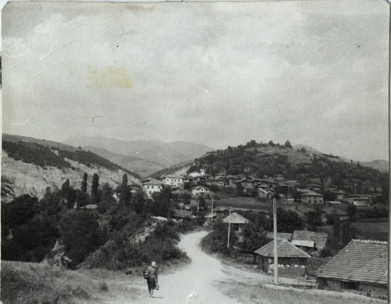 Gorna Sushitza, close to Melnik, Blagoevgrad Province, Bulgaria, late 1960s. Archive: Stavrev family